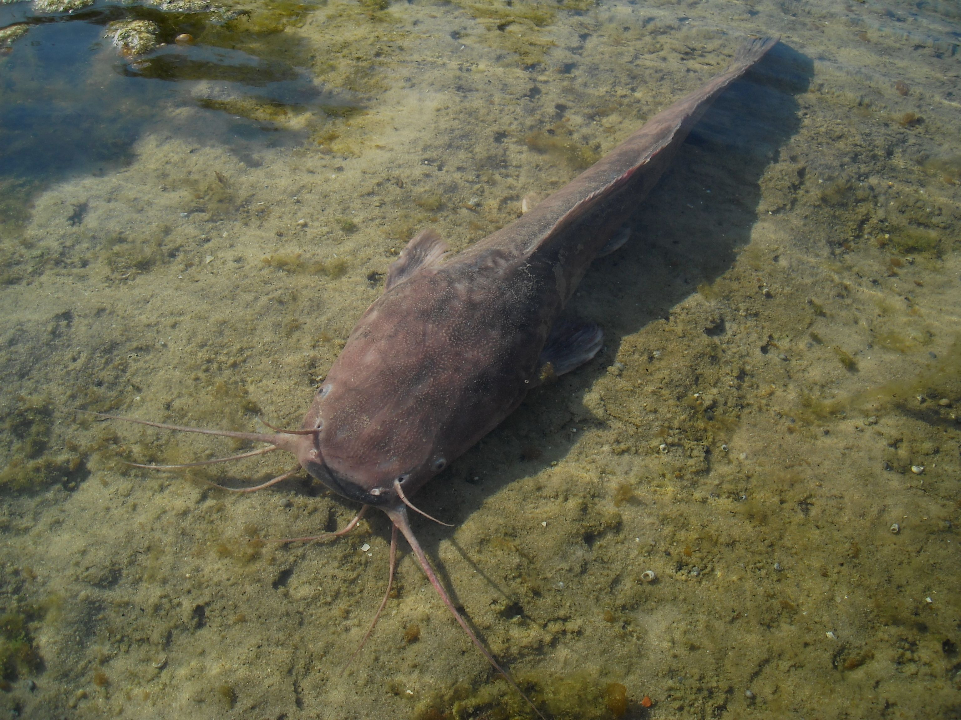 Clarias anguillaris, artificially cultured in Kursk region, Russia